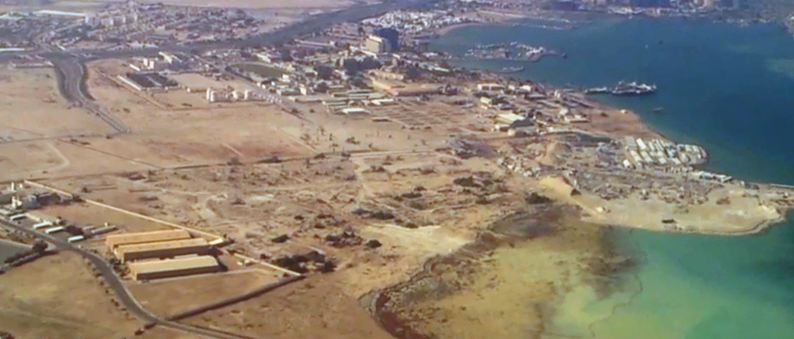 Aerial view of Ras Abu Aboud and the coastline in Doha, Qatar.